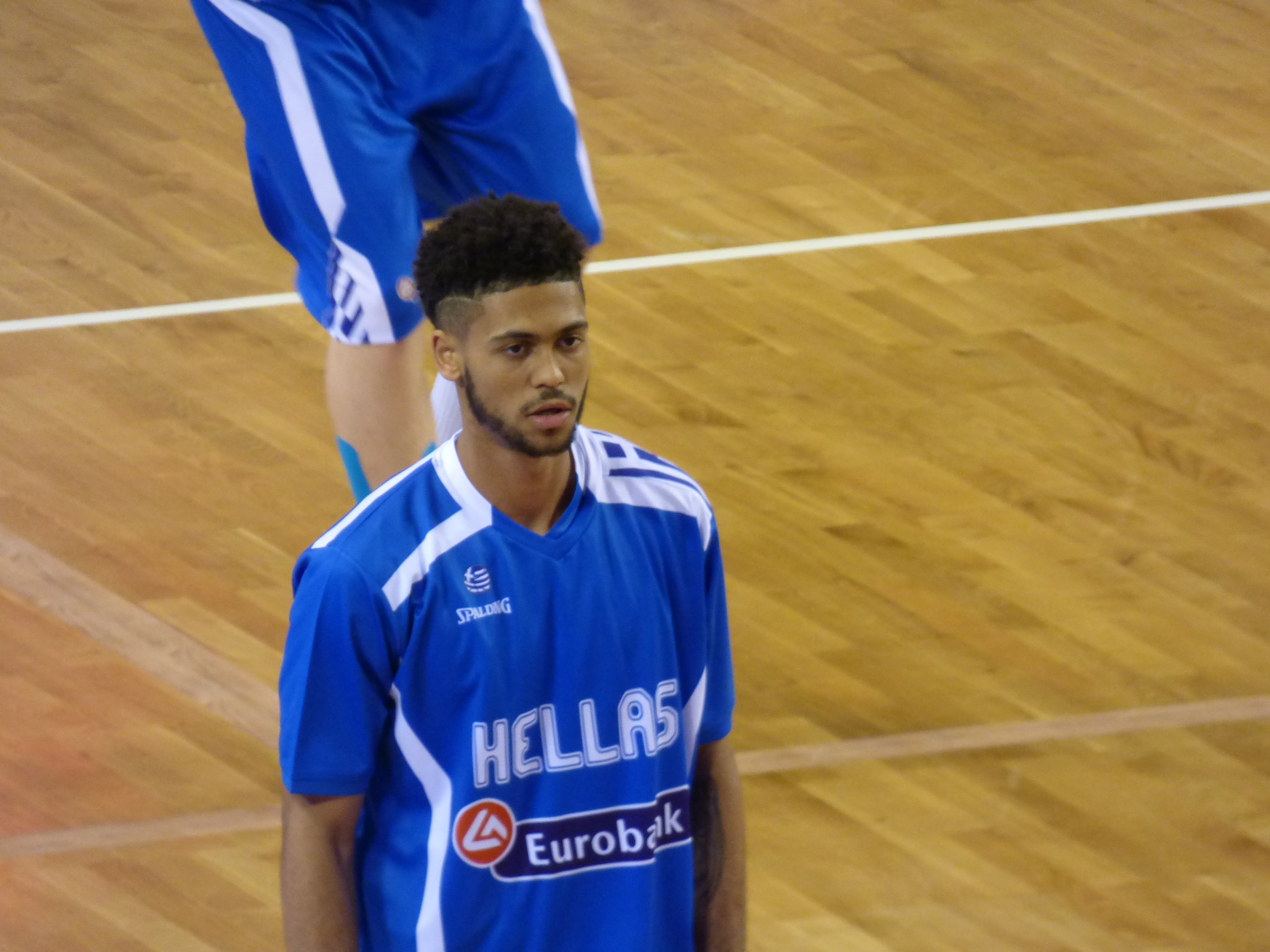 Tyler Dorsey with the Greek under-19 national basketball team during the 2015 Fiba U19 world championship.